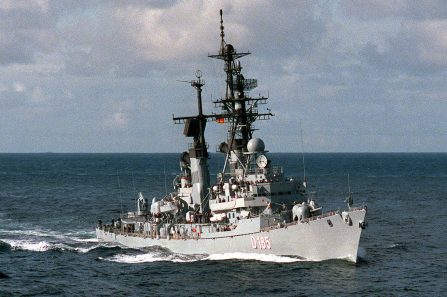 The West German guided missile destroyer Lütjens (D185) underway during exercise "Team Work '88".